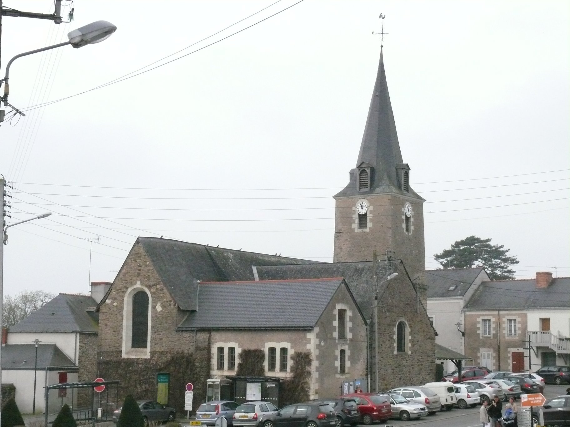 Saint-Venant's church of La Meignanne (Maine-et-Loire, Pays de la Loire, France).